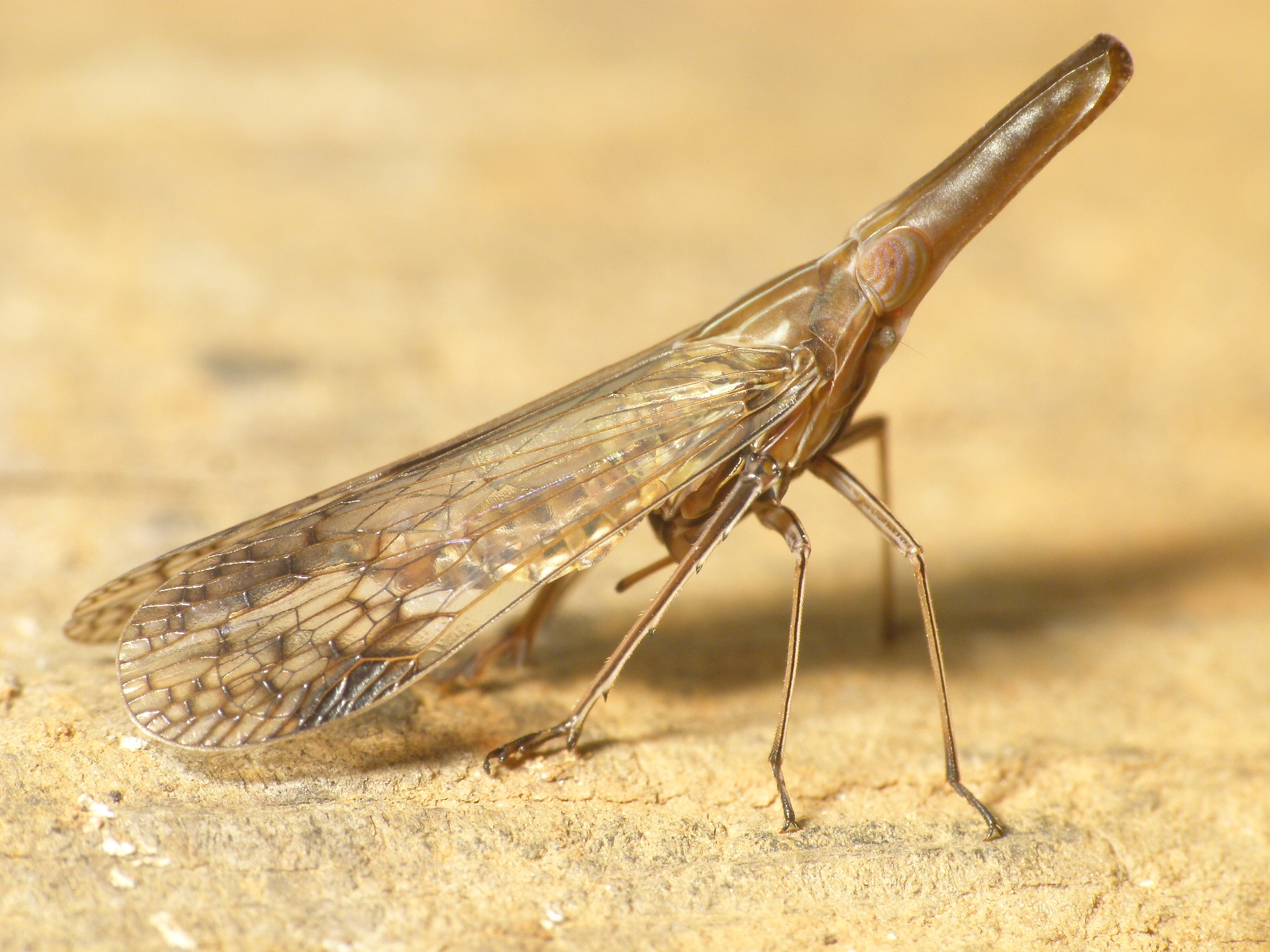 Dictyophara sp. Dictyopharidae. Auchenorrhyncha. Wynaad, India.